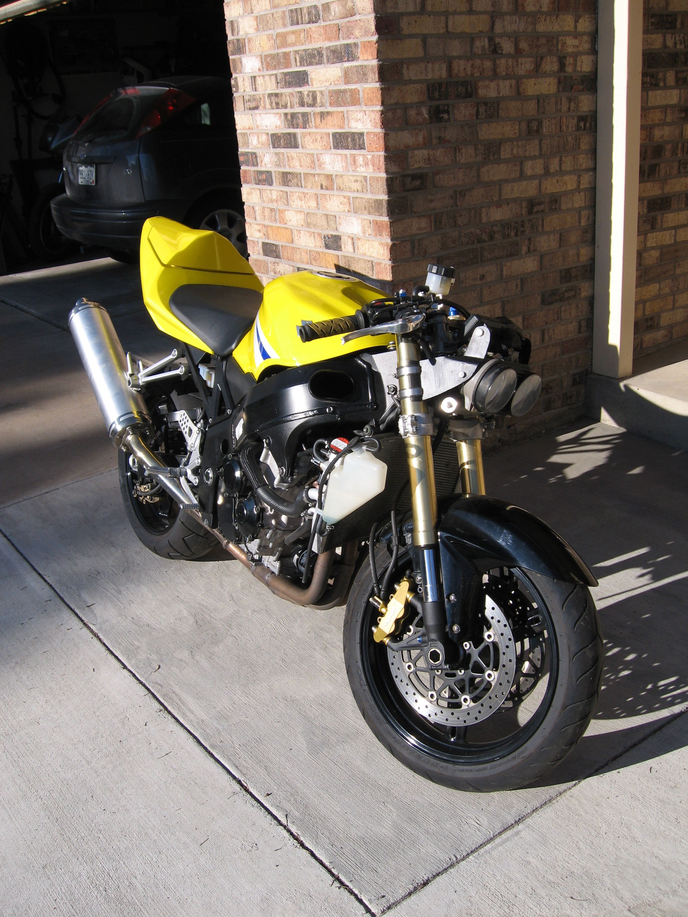 Picture of a 2005 Suzuki GSX-R600 in the form of a streetfighter